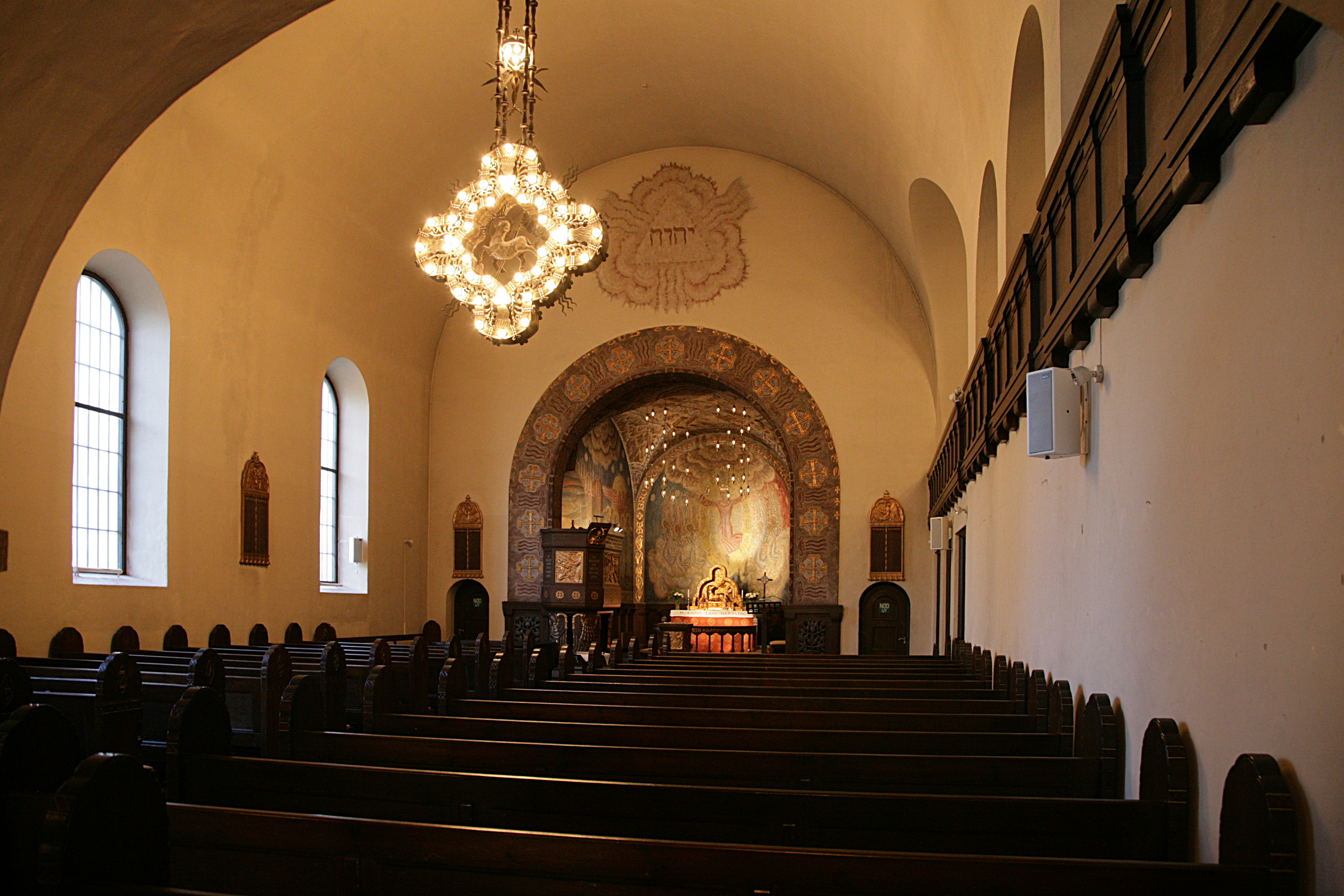 Bekkelaget kirke, a church in OsloNorsk bokmål: Bekkelaget kirke